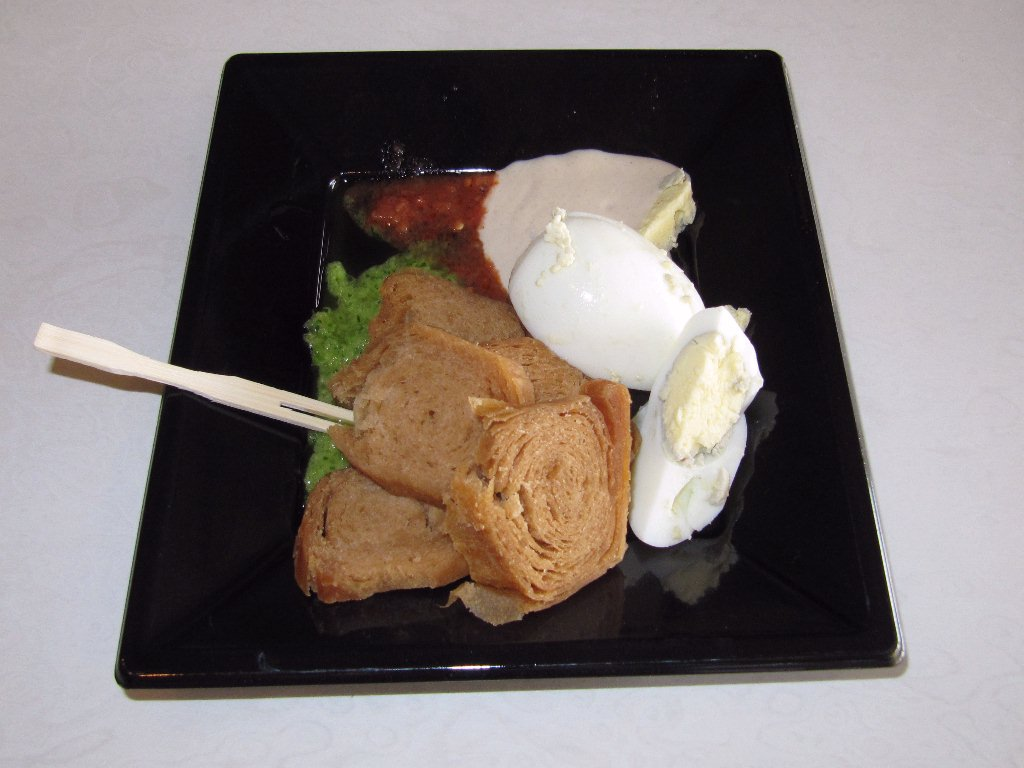 Jakhnun at Wikimania 2011